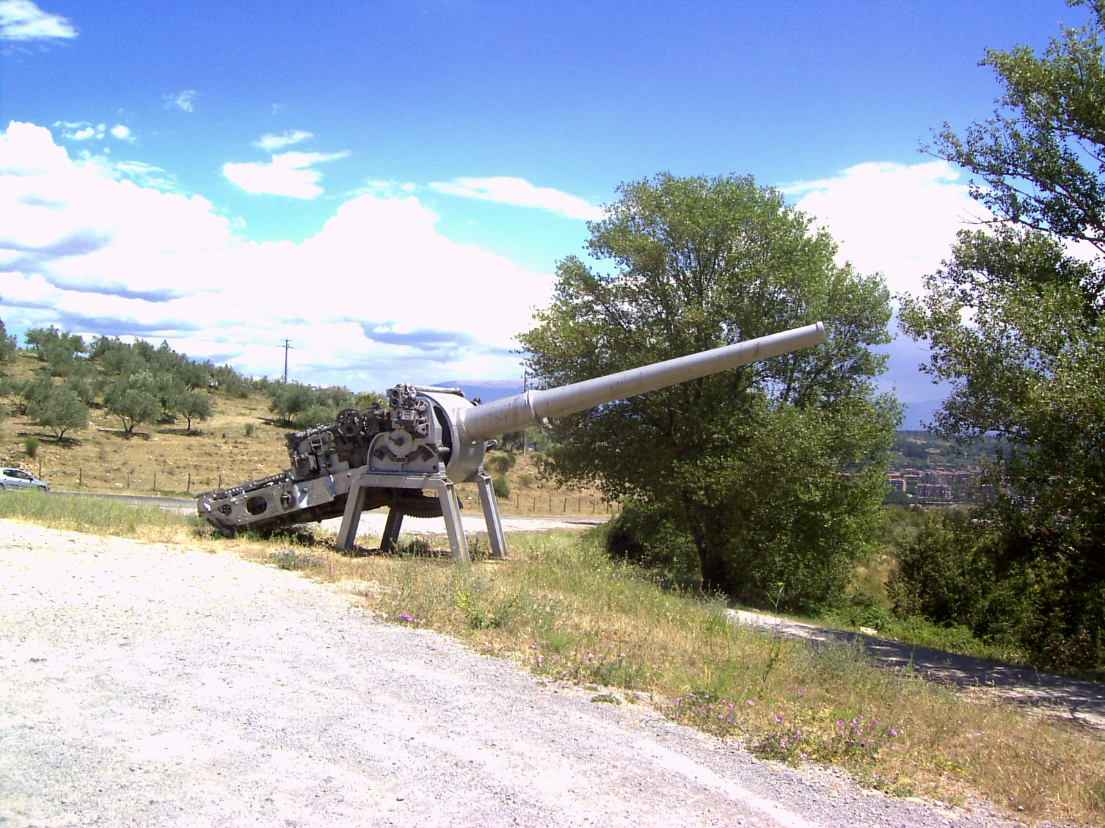 Twin mount of Montecuccoli